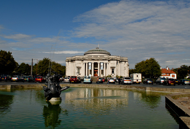 Lady Lever Gallery - Port Sunlight